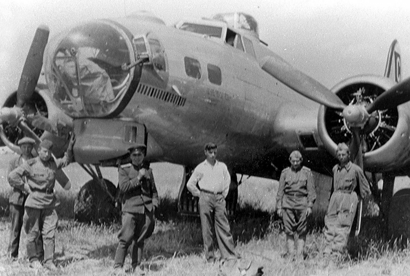 Badly damaged B-17 bomber and Russian soldiers in Poltava, Russia, on June 22, 1944.